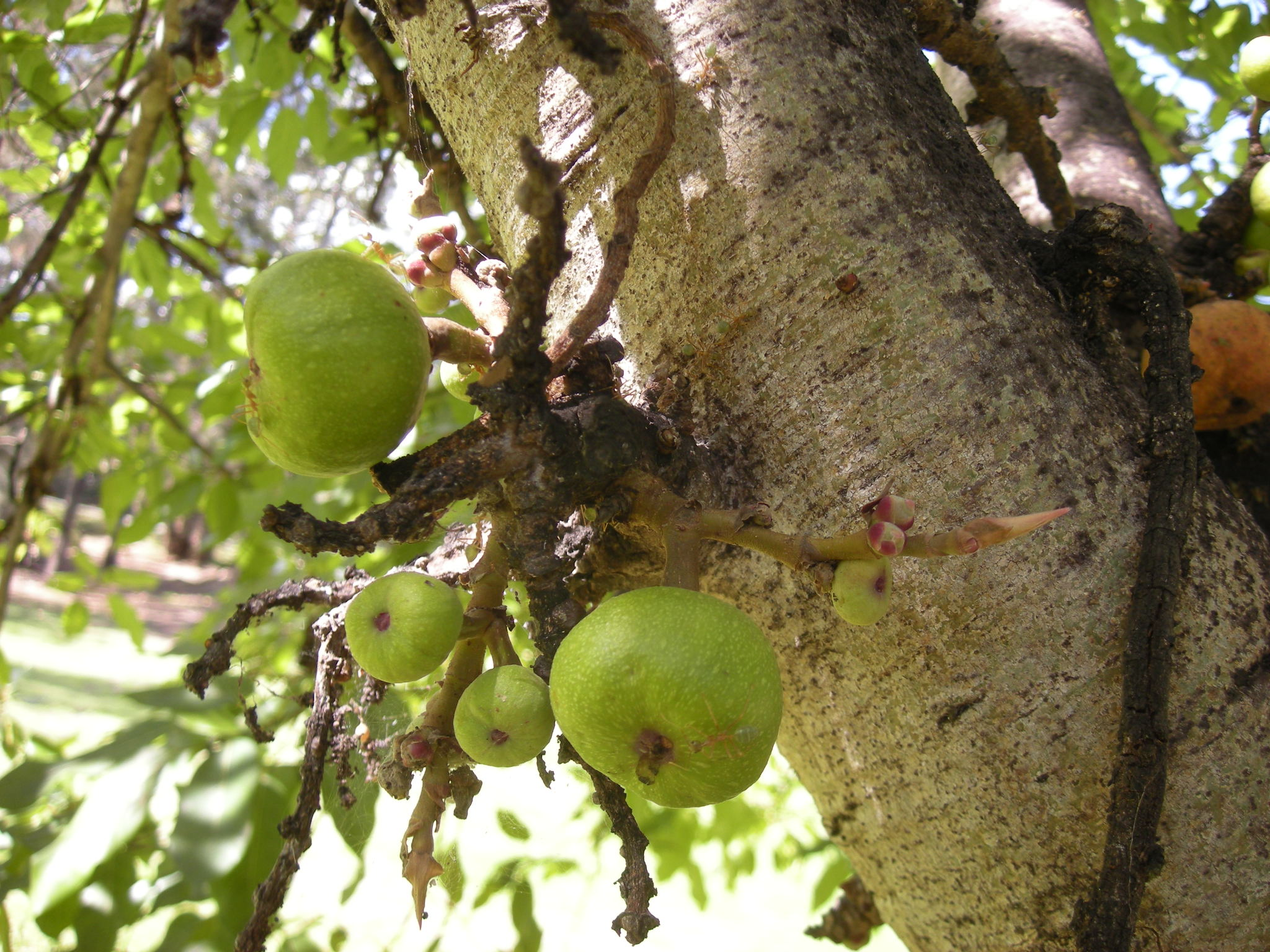 Ficus racemosa fruit. Cauliflory